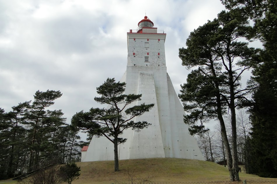 Kopu Lighthouse